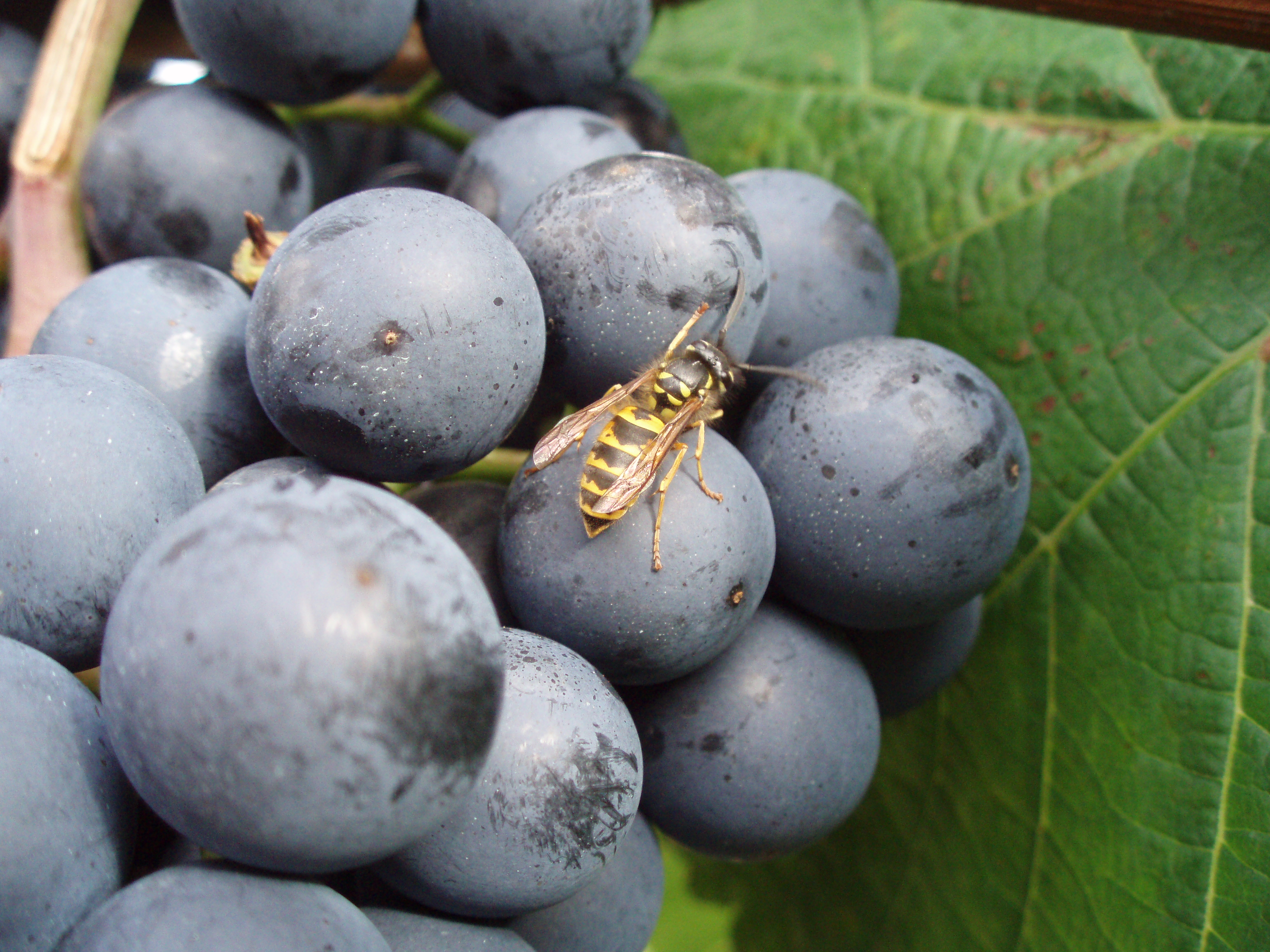 German Wasp on Dornfelder grapes